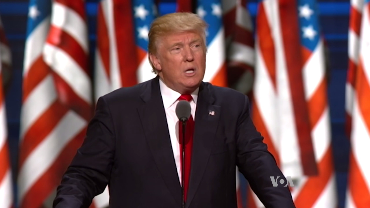 Trump speaking at the Republican National Convention in 2016